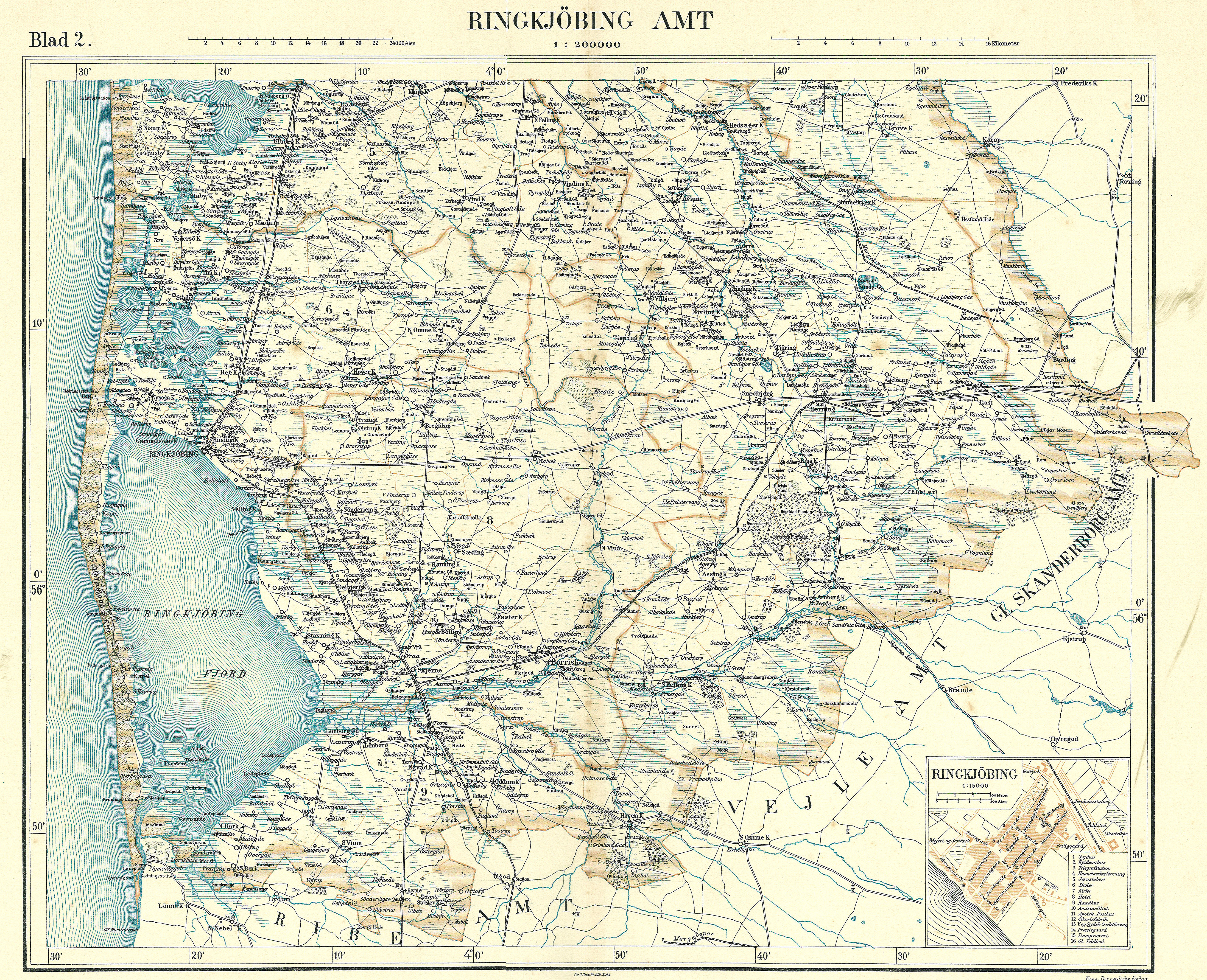 Map of the southern part of Ringkøbing County in Denmark